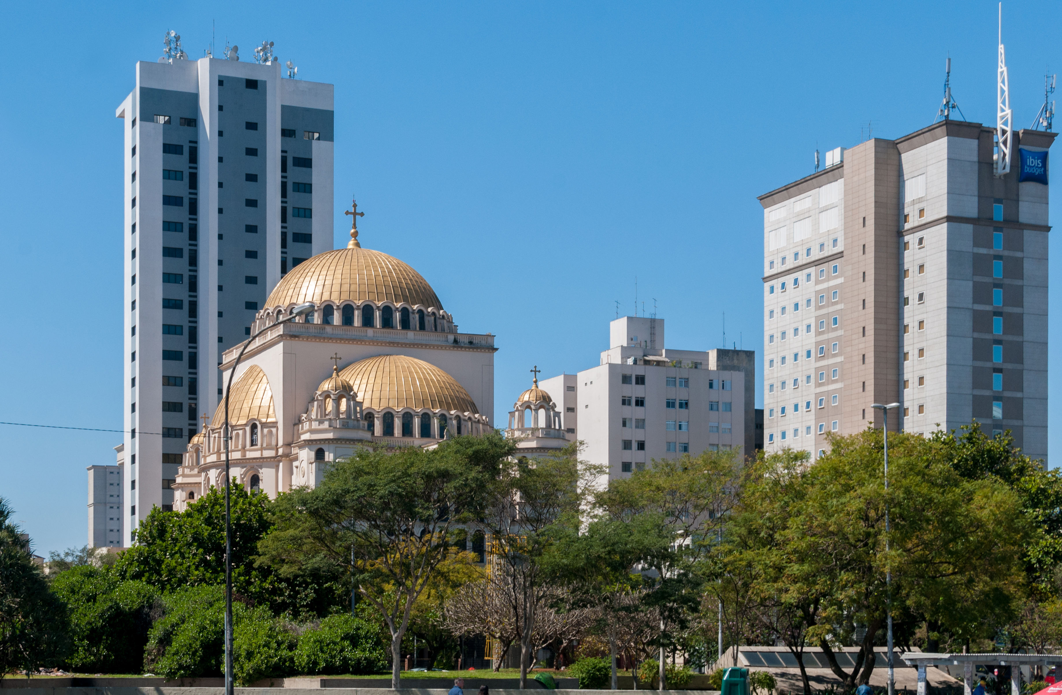 Catedral Metropolitana Ortodoxa de São Paulo